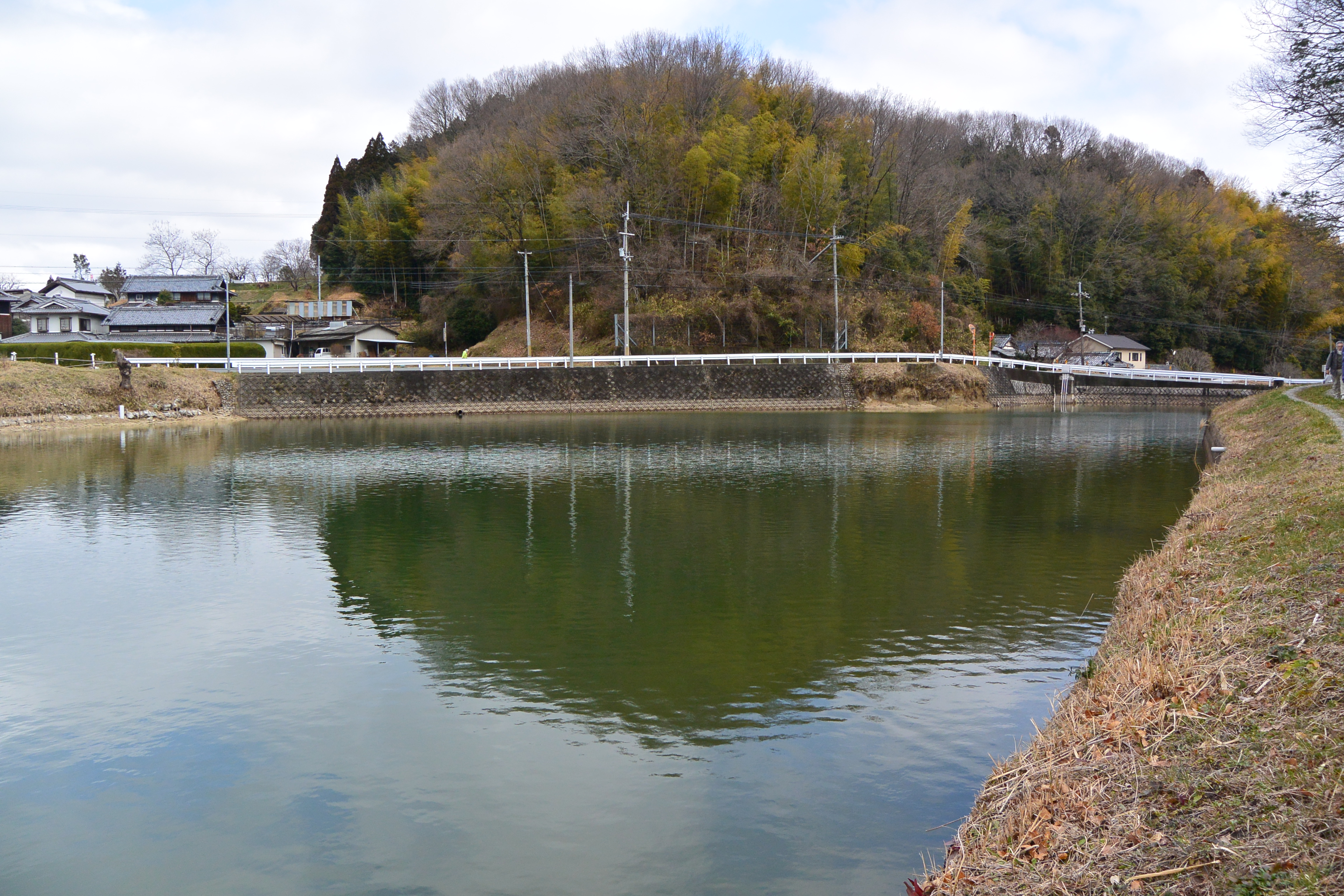 The view of Dake-yama, highest point of Seika Town Kyoto